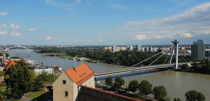 A view from the castle, Nový most